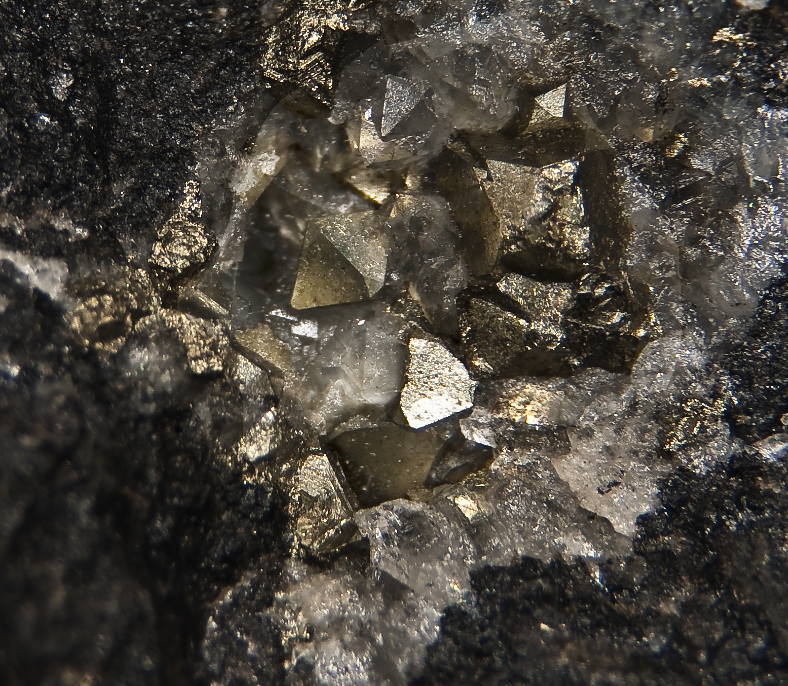 Stannite Locality : Fabulosa Mine, Larecaja Province, La Paz Department, Bolivia- xx2mm